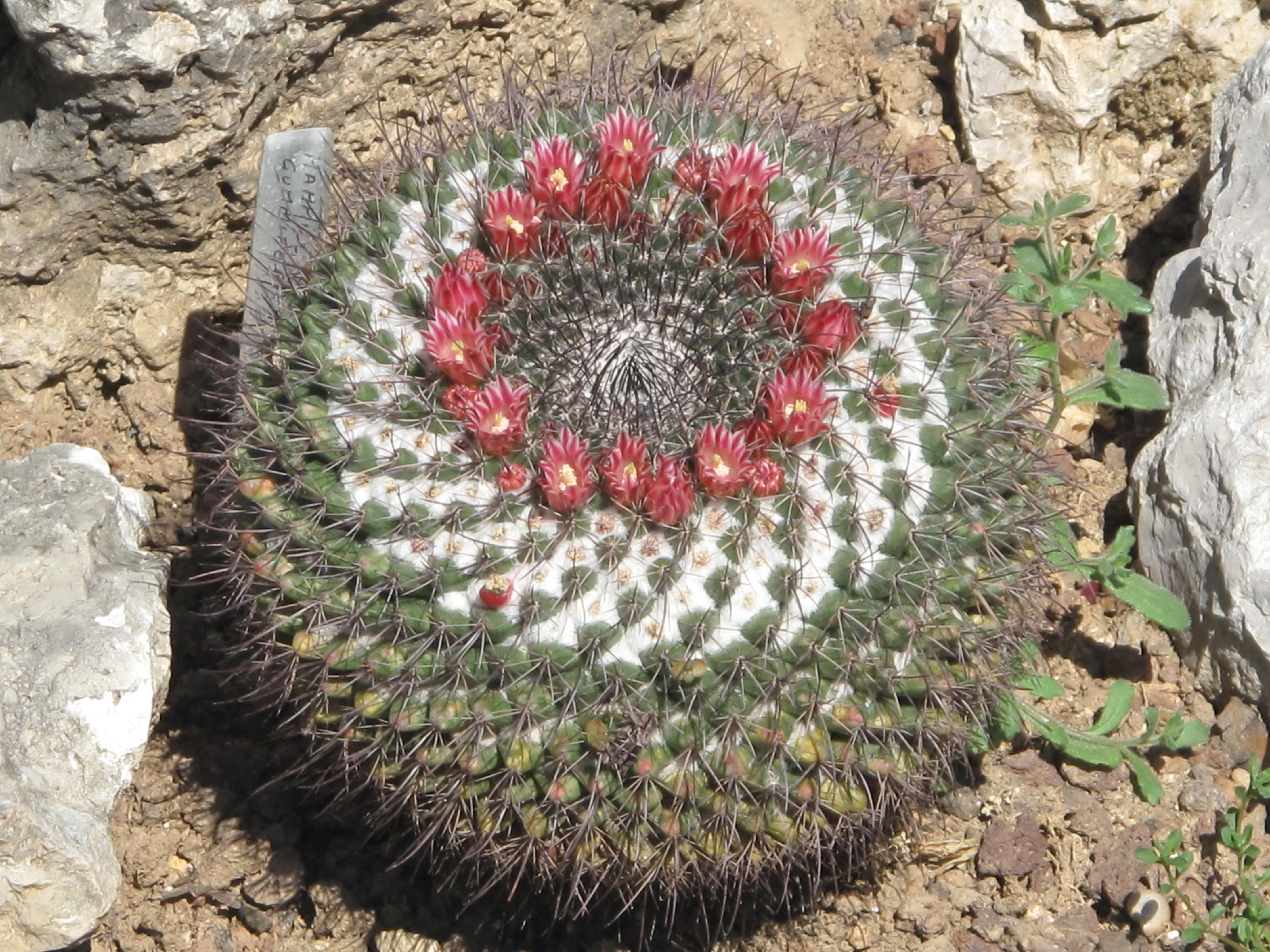 Mammillaria gummifera in the exotic garden of Monaco. Identified by label.